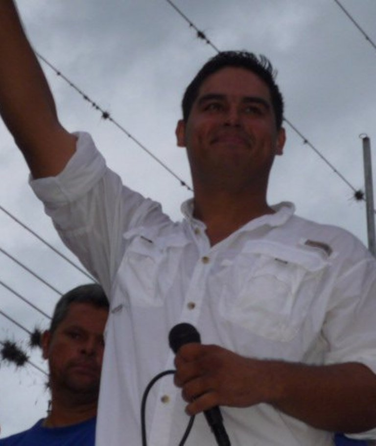 Photo I took the Venezuelan political Socopó population (Venezuela), while in his campaign for mayor of that place in 2010.